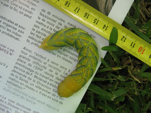 Death's-head Hawk moth (Acherontia atropos) - picture taken in La Réunion